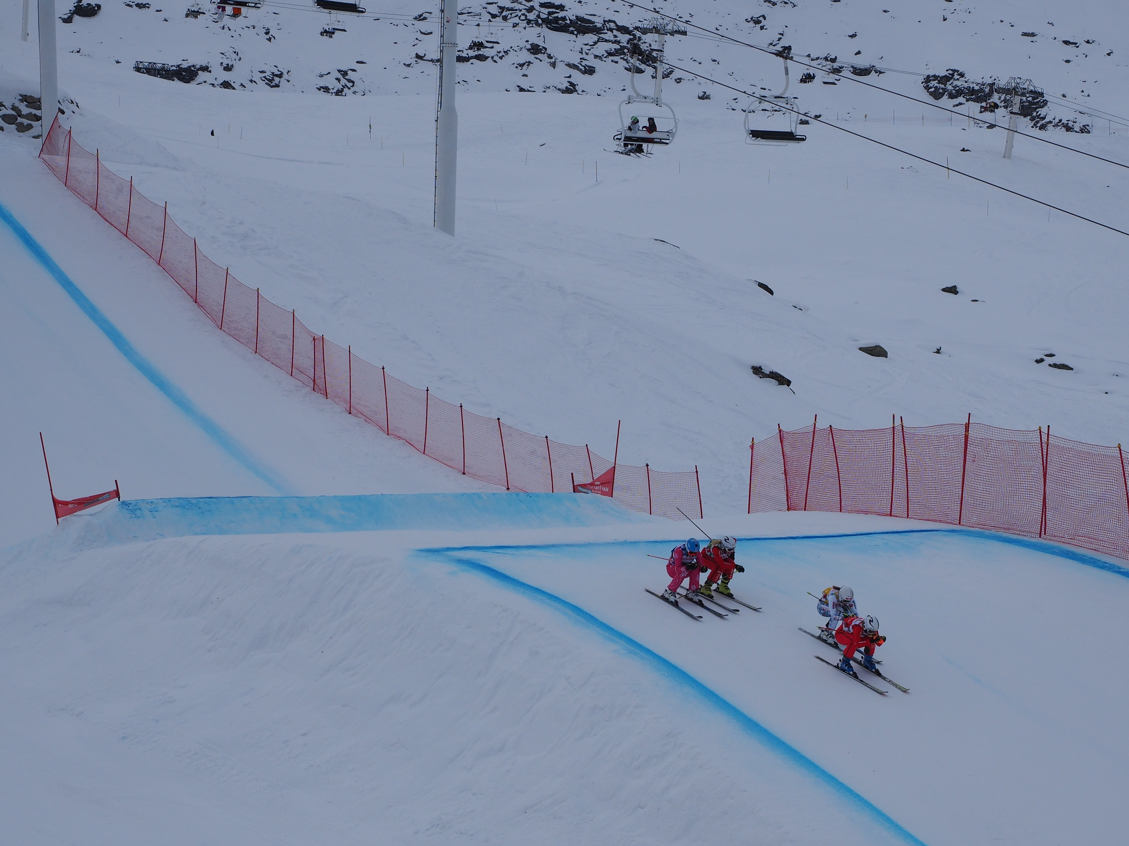 Extreme Environments - Audi FIS Ski Cross World Cup - Val Thorens, France